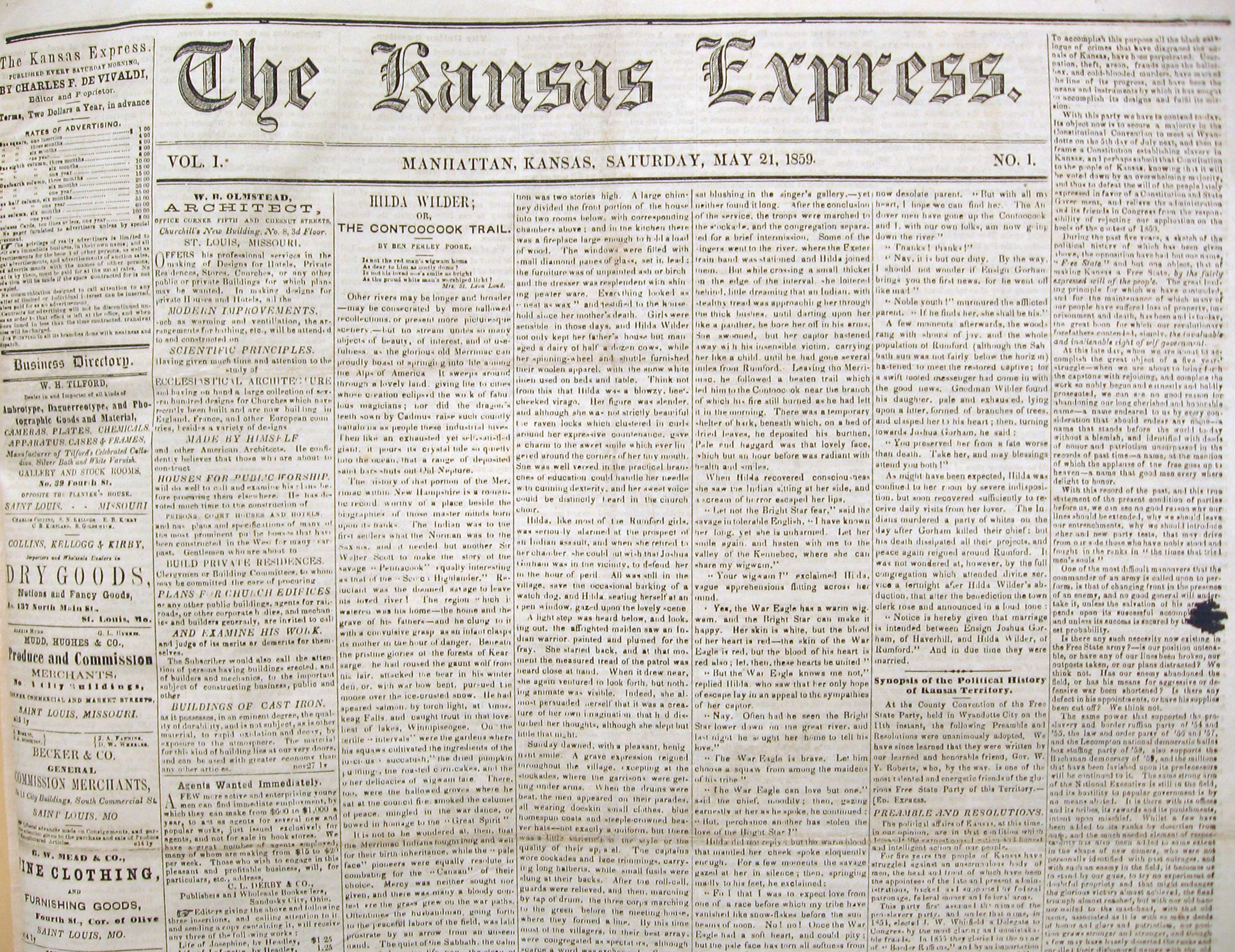 Front page of "The (Manhattan) Kansas Express" newspaper, vol. 1, no. 1. Dated May 21, 1859